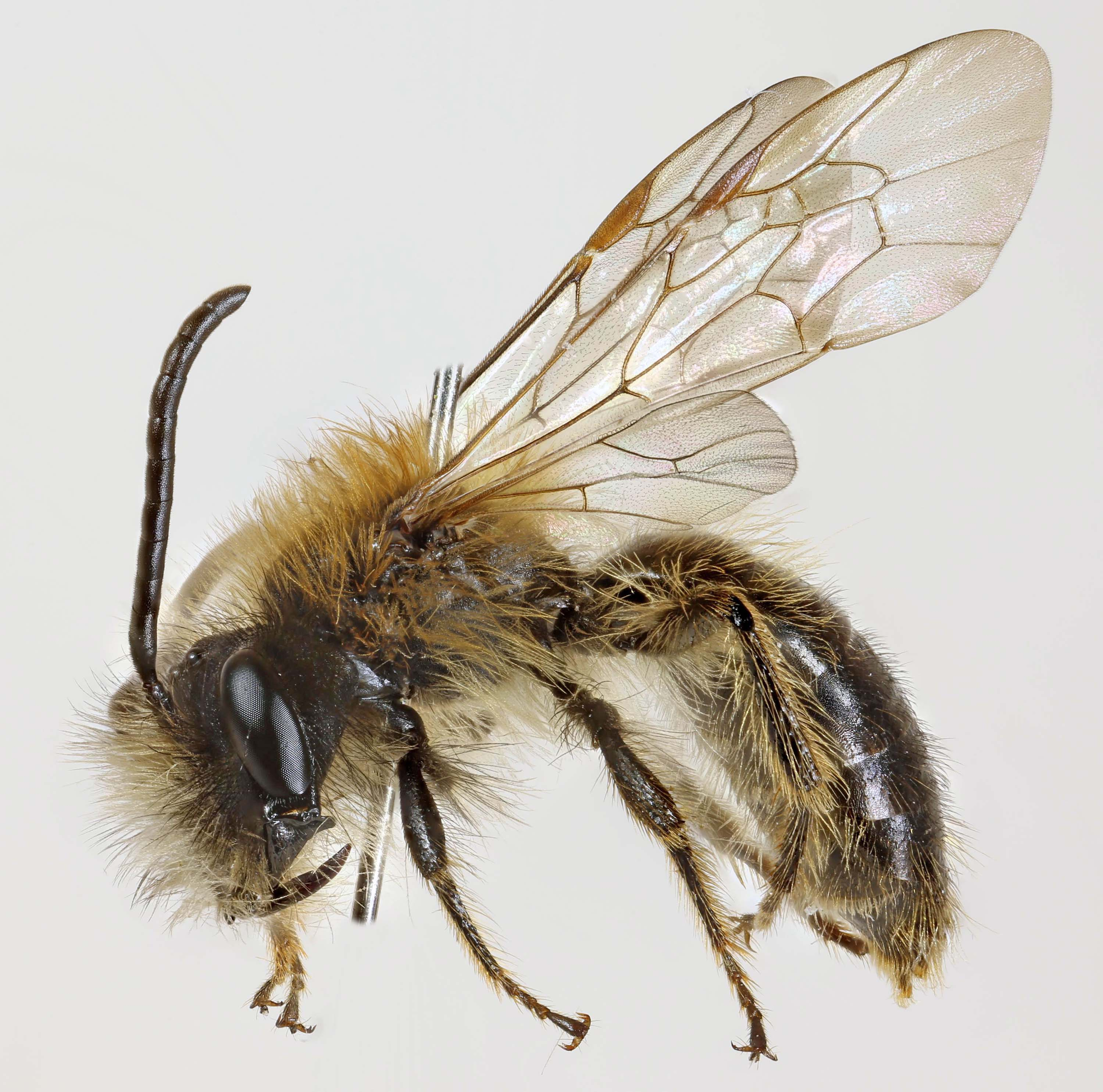 Andrena lapponica male, Trawscoed, North Wales, May 2016